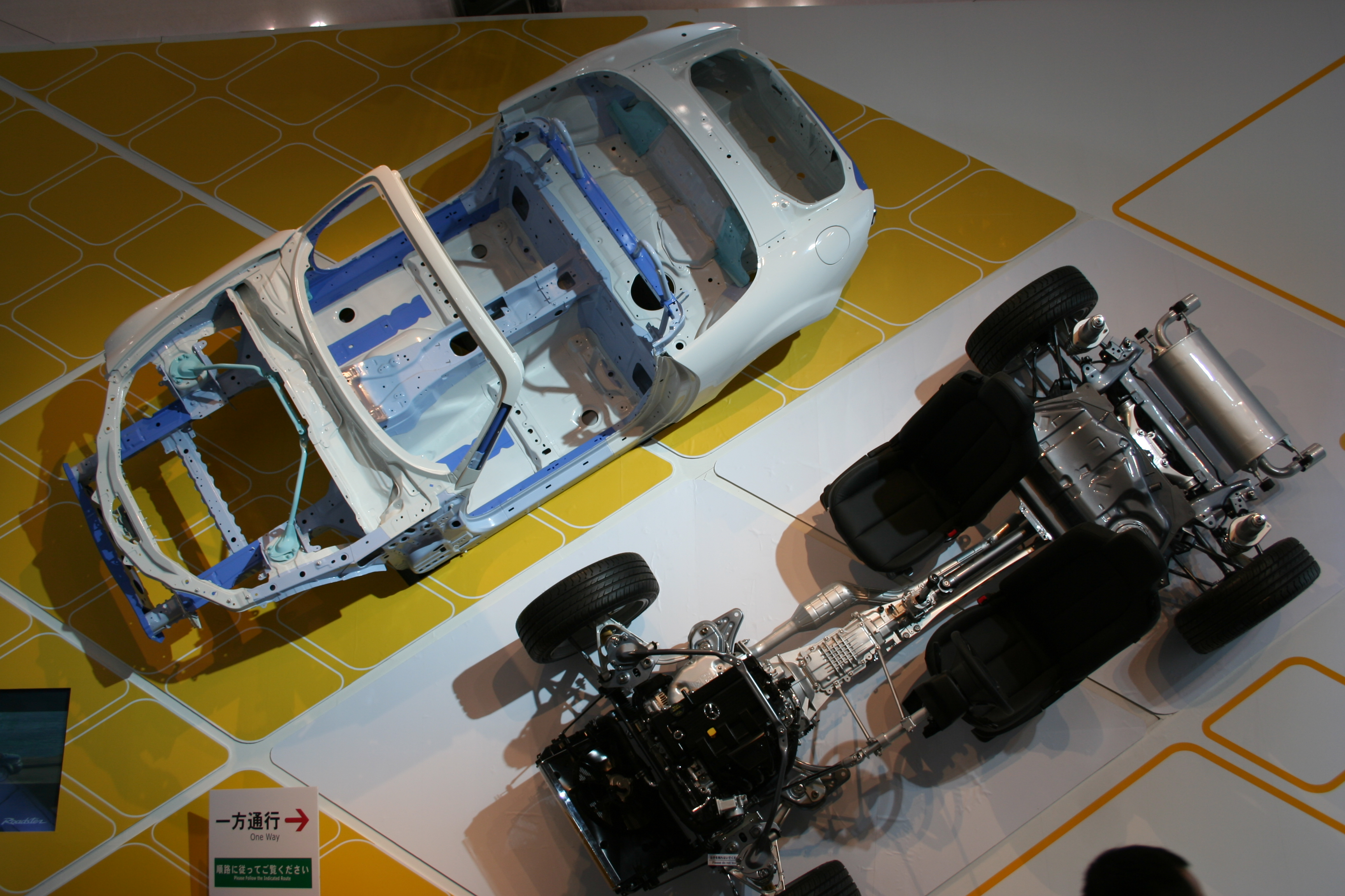 Mazda MX-5 Roadster (NC) body shell (left) and chassis with drivetrain (right)